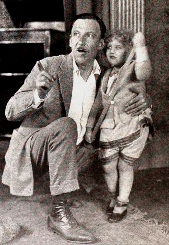 Still from the production of the American drama film No Woman Knows (1921) with director Tod Browning and an unidentified child actress, on page 71 of the October 1, 1921 Exhibitors Herald. The caption lists the child actress as Maxine Tabacnio and states that she has an important role in the film, but she is not listed in the cast of the film or in the IMDb.